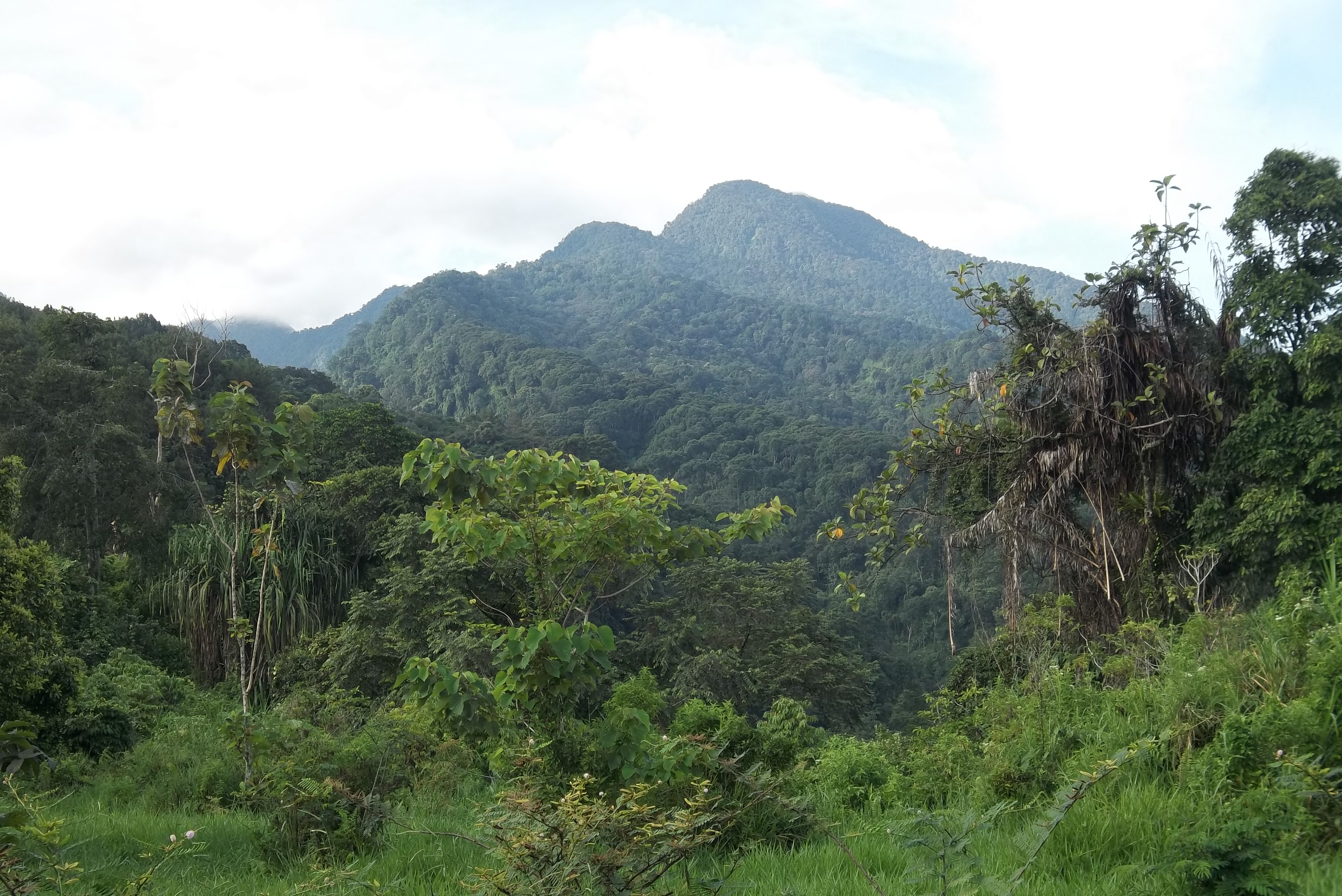 The peak of Mount Salak seen from Sukamantri, Ciapus, Bogor, Indonesia.